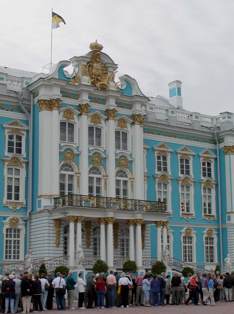 Pushkin (Russia), Catherine Palace